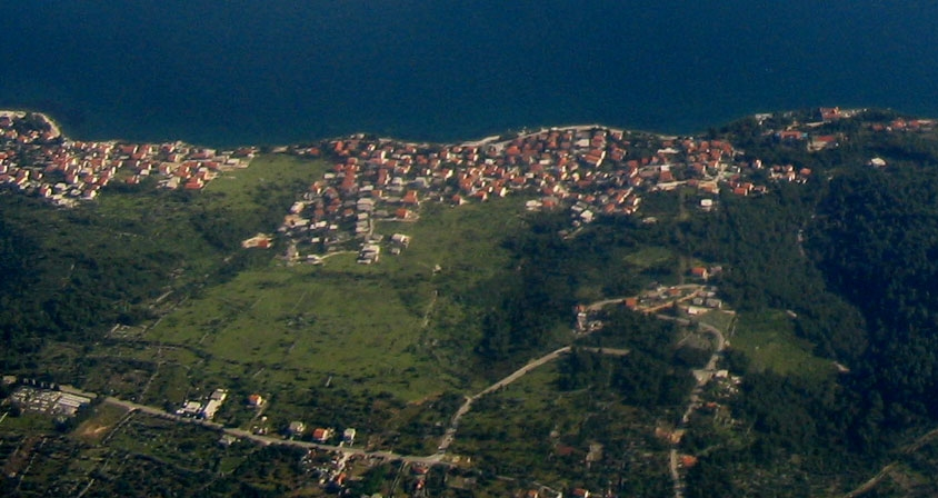 Mastrinka on Čiovo from air